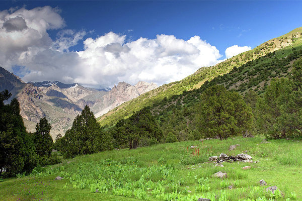 tojikiston